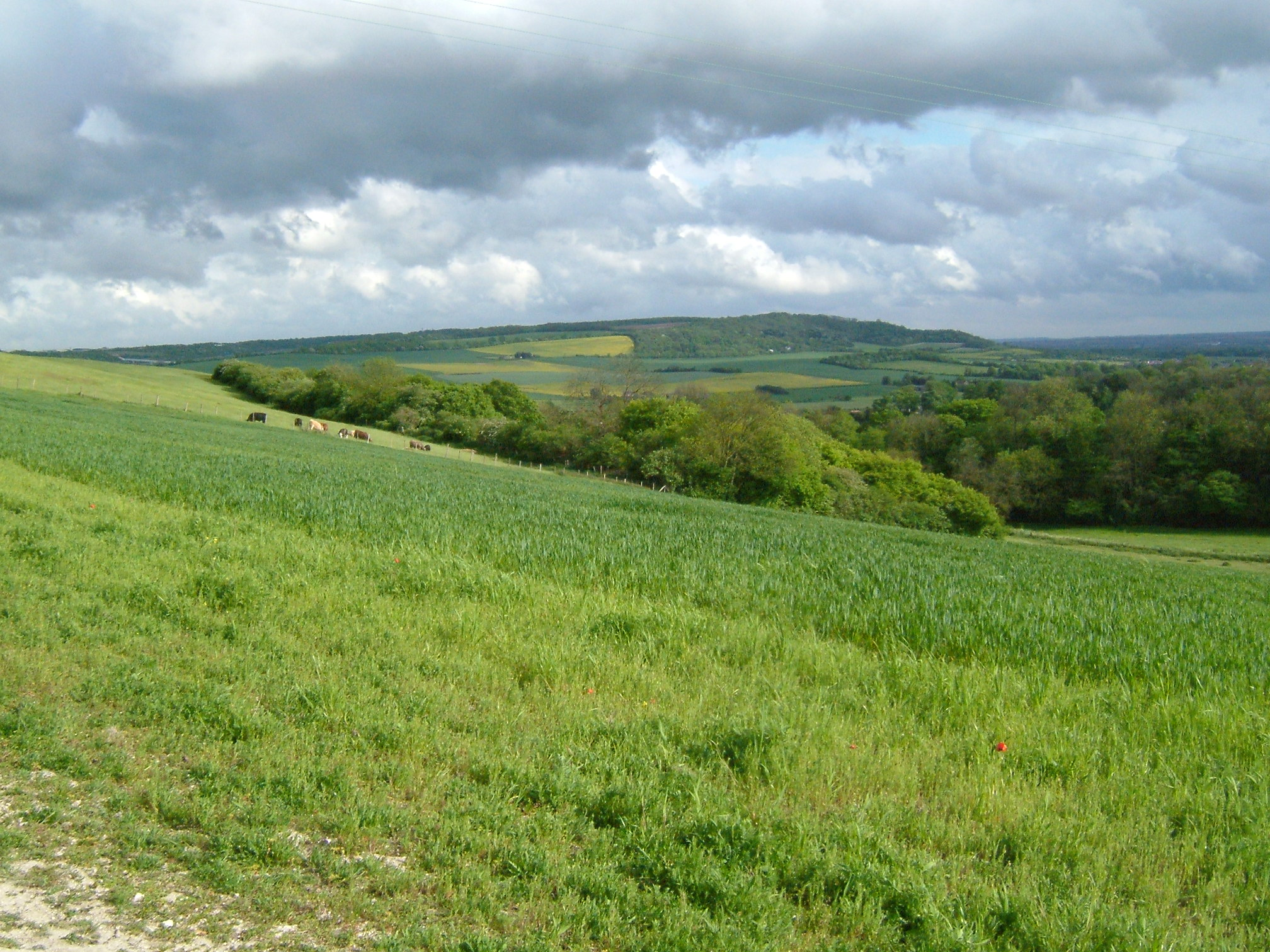 Downland Scenery from Ranscombe Farm Nature Reserve near Cuxton, Kent, looking over the Medway valley to Bluebell Hill. This is on The North Downs Way.